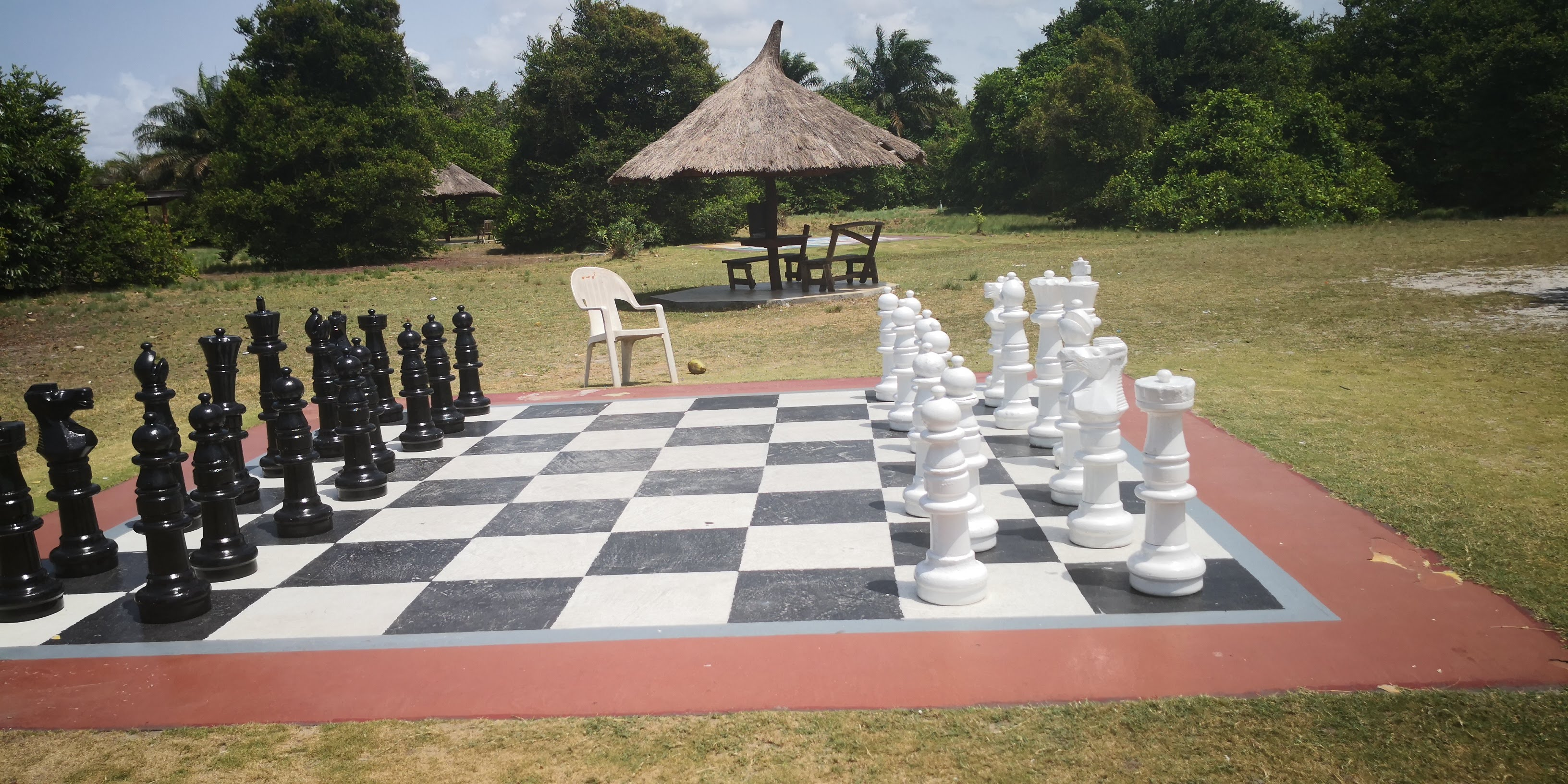 Floor Games Family Park